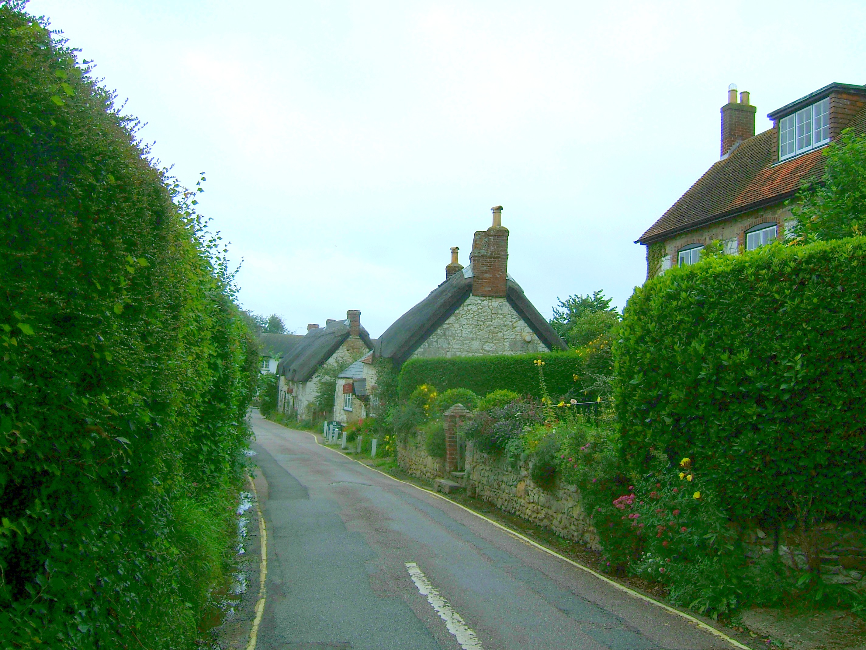 Brighstone.